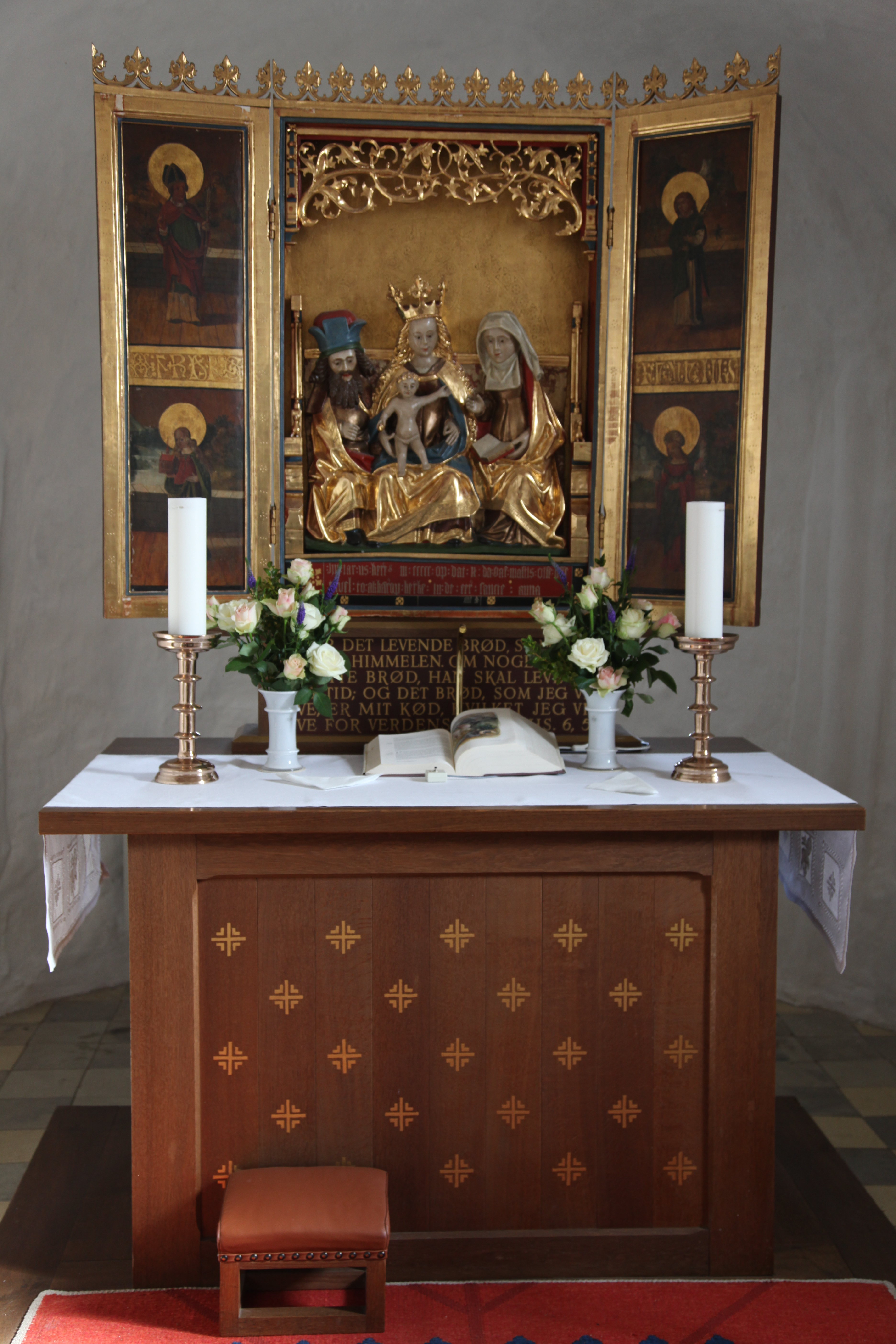 Ågerup church, Denmark. Altar from 1509.